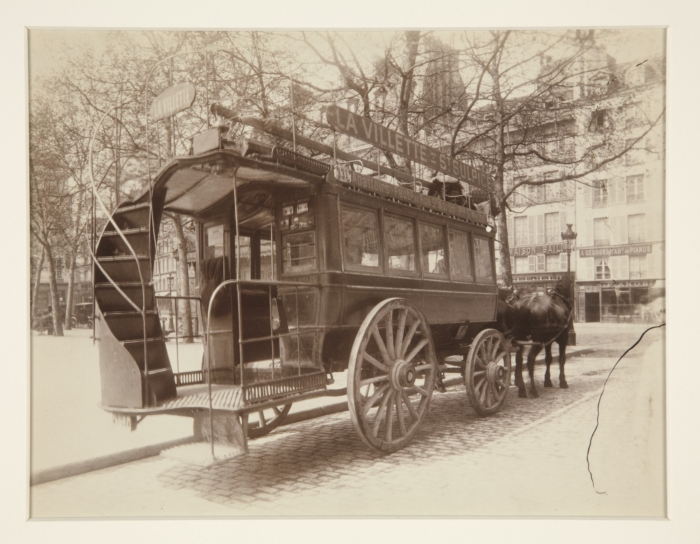 "Omnibus," vintage albumen print, by the French photographer Eugène Atget. 6 5/8 in. x 8 7/16in. Yale University Art Gallery, Everett V. Meeks, B.A. 1901, Fund. Courtesy of Yale University, New Haven, Conn.